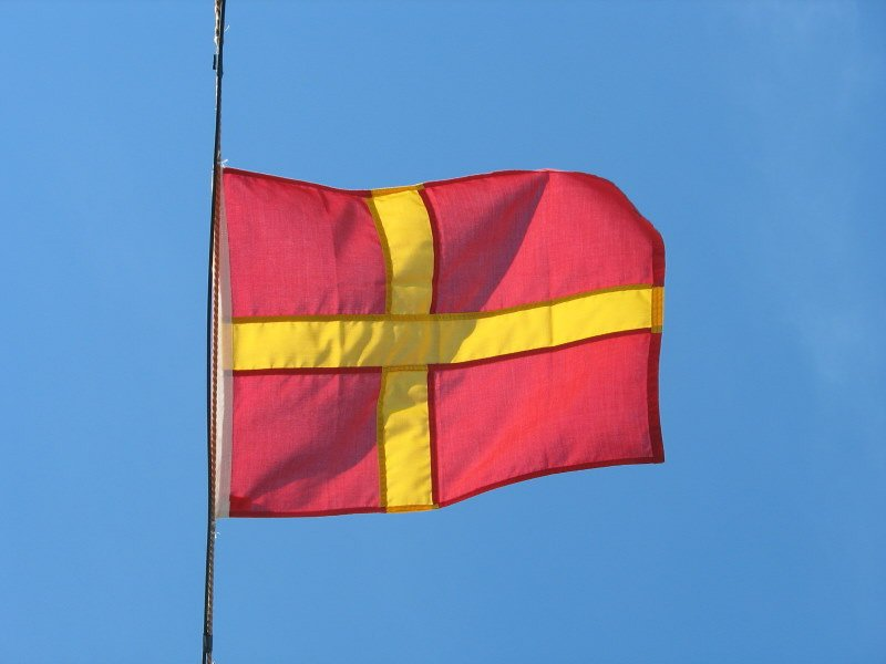 The flag of Scania (Skåne in Swedish), a province in the southernmost Sweden.